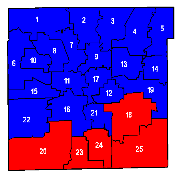 2020 Composition of the Indianapolis City-County Council as of January 1st, 2020